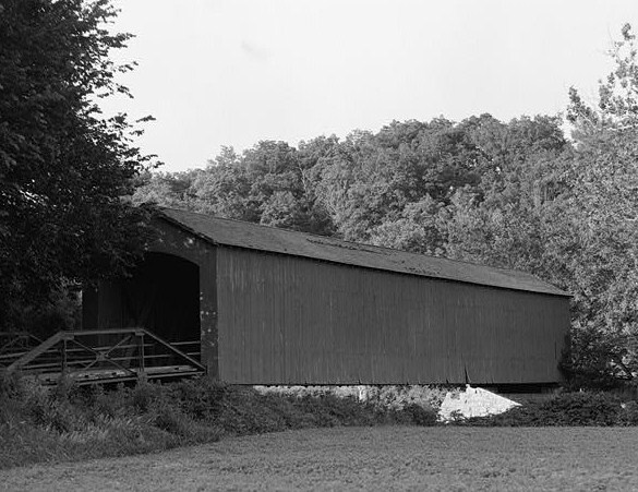 Covered Bridge, Spanning Stranger Creek near Highway K-92, Springdale vicinity (Leavenworth County, Kansas)-cropped